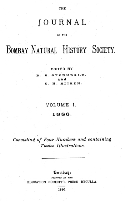 Image of title page of volume 1, number 1, Journal of the Bombay Natural History Society, 1886. Scanned and reduced by me (Fowler&fowler«Talk» 18:50, 18 January 2007 (UTC)).